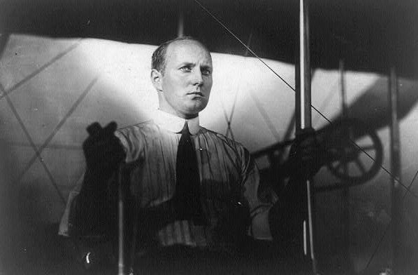 Robert George Fowler (1884 – 1966), an early aviation pioneer